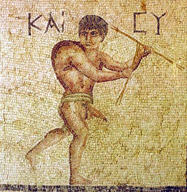 A good spirit (Agathos Daimon) or Tykhon (the personification of good fortune) is depicted opposite the Kakodaimon (bad spirit) and his evil eye, representing the power of misfortune. The good spirit holds spits in his hands as a sign of good luck, and is shown with enlarged genitals.